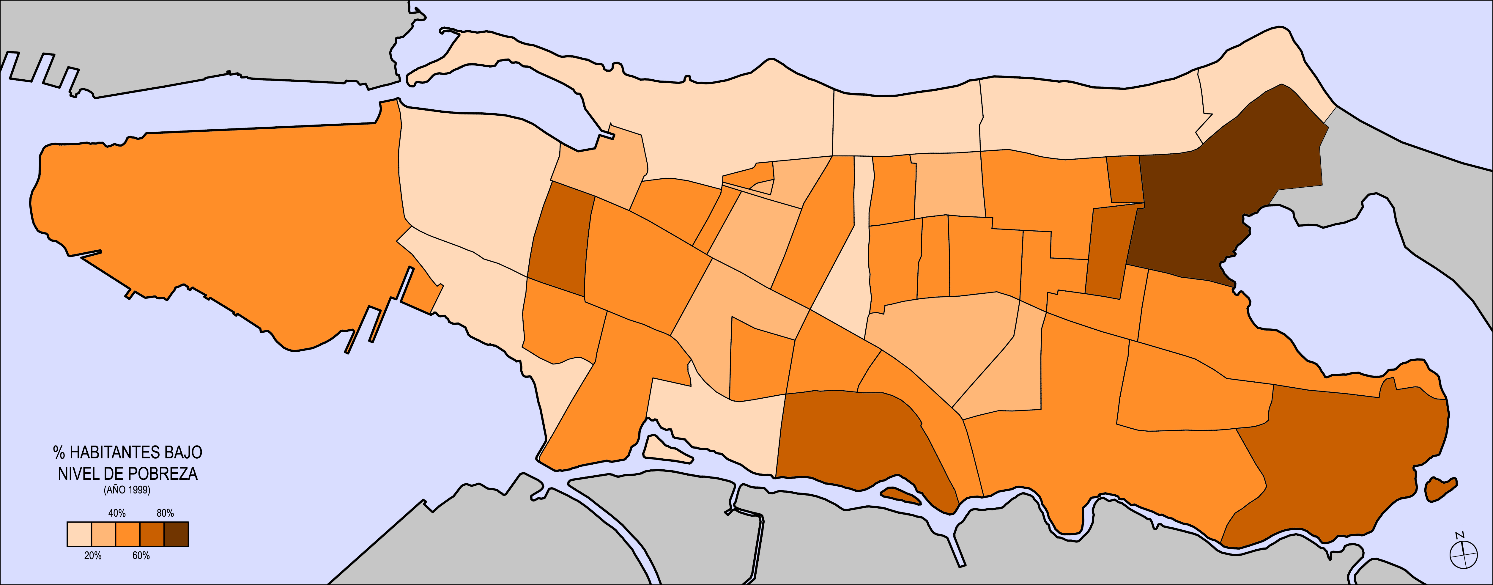 Percent of population with income in 1999 below poverty level